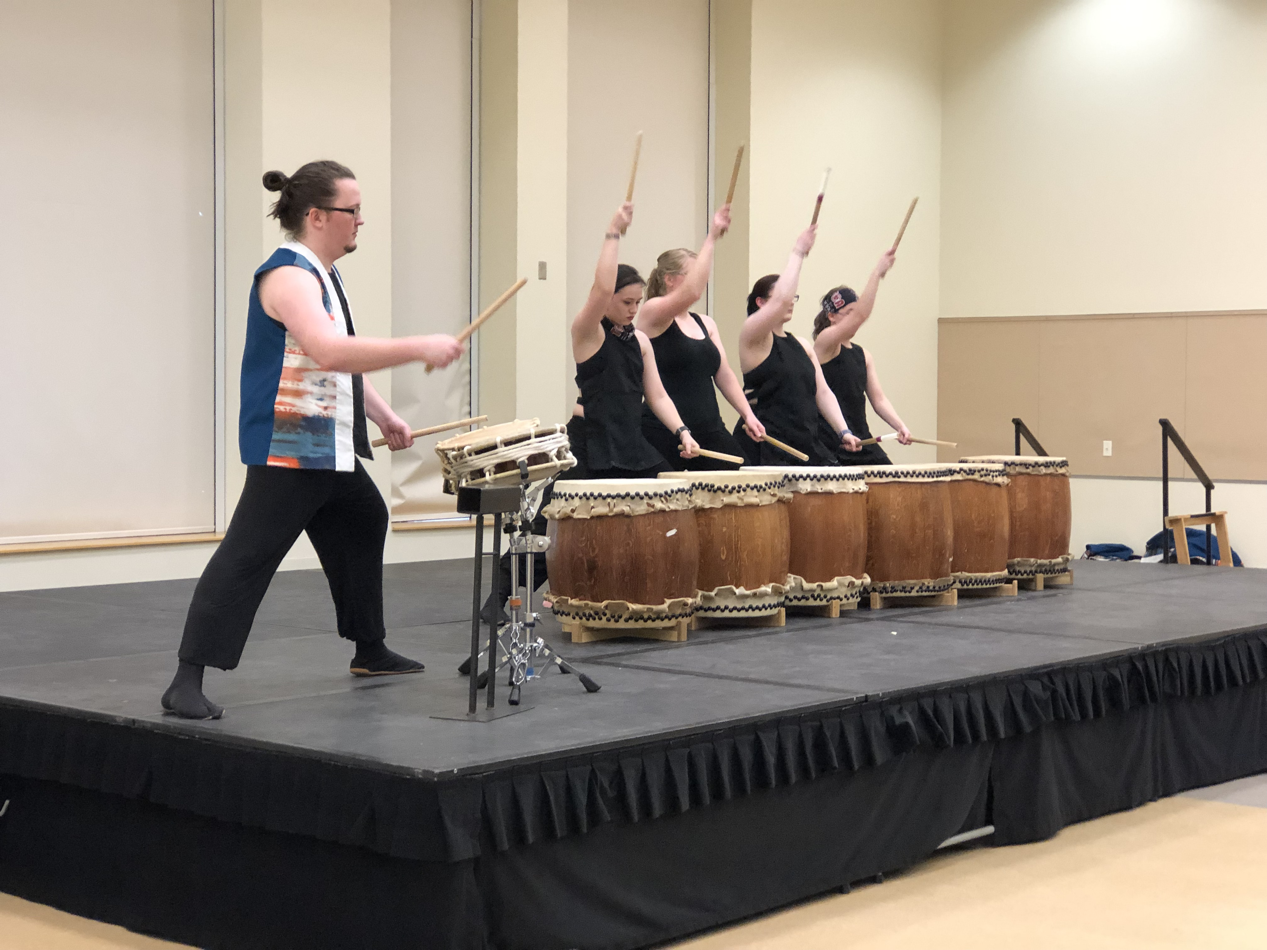 Kaze No Daichi Taiko drummers at an Animarathon 2019.